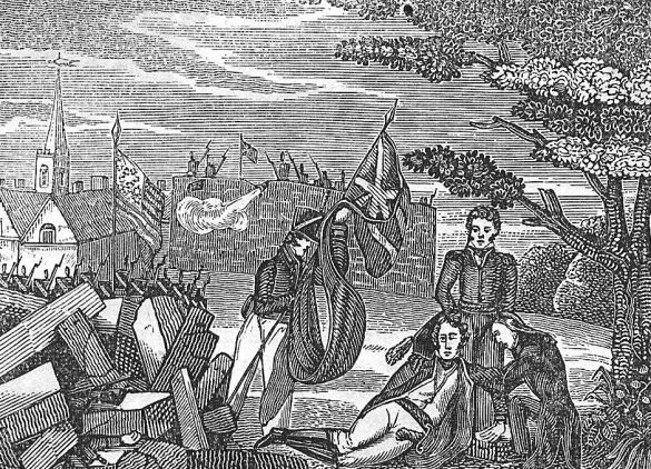 An 1839 engraving of the death of American brigadier general Zebulon Pike at the Battle of York near York, Upper Canada (present day Toronto) on 27 April 1813. Pike was killed by debris from the explosion of a powder magazine. This scene shown in this American print of 1839 bears little resemblance to the actual 1813 fortifications at York, while the town itself was actually out of sight further to the east.